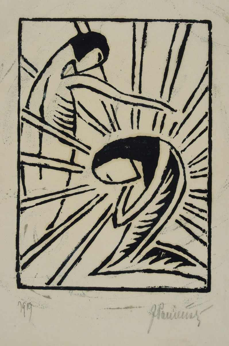 "Zwiastowanie" (Annunciation) - a print from 1919, by Jan Panieński (1900-1925) - a Polish artist.